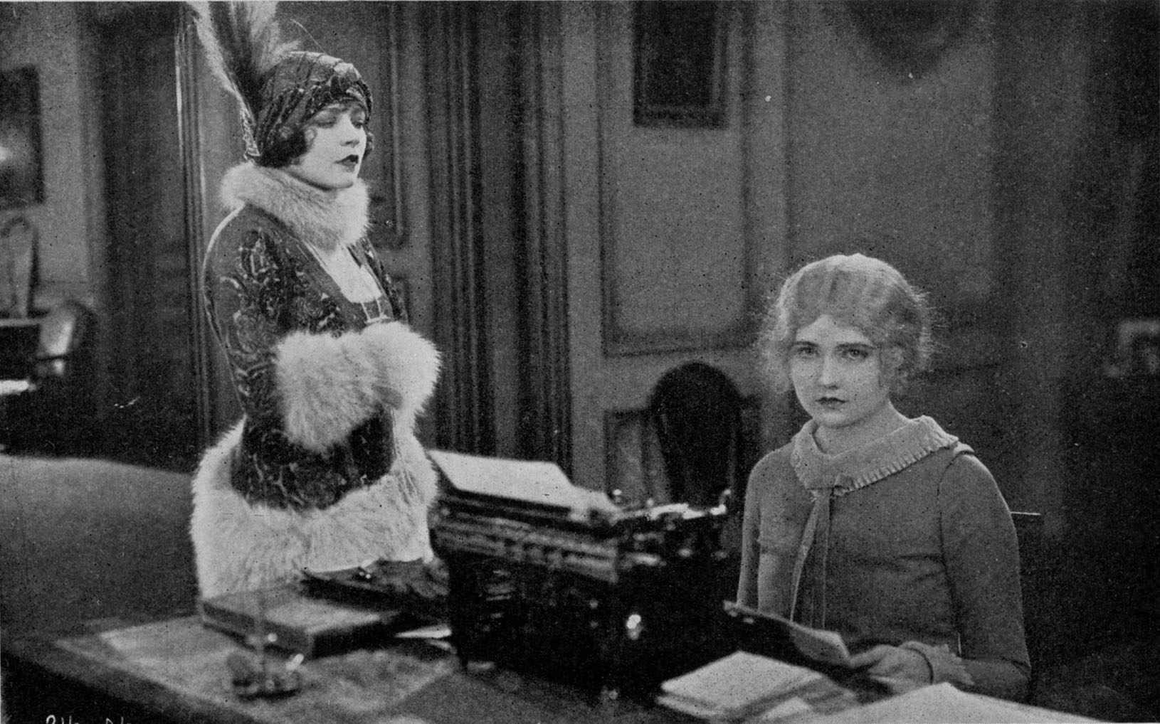 Alathea (Harriet Hammond) realizes that Suzette (Renée Adorée) is the only woman that stands between her and the love of Sir Nicholas (Lew Cody). (A scene from "Man and Maid" for Metro-Goldwyn-Mayer)